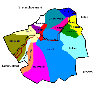 Map of municipality Hadžići.